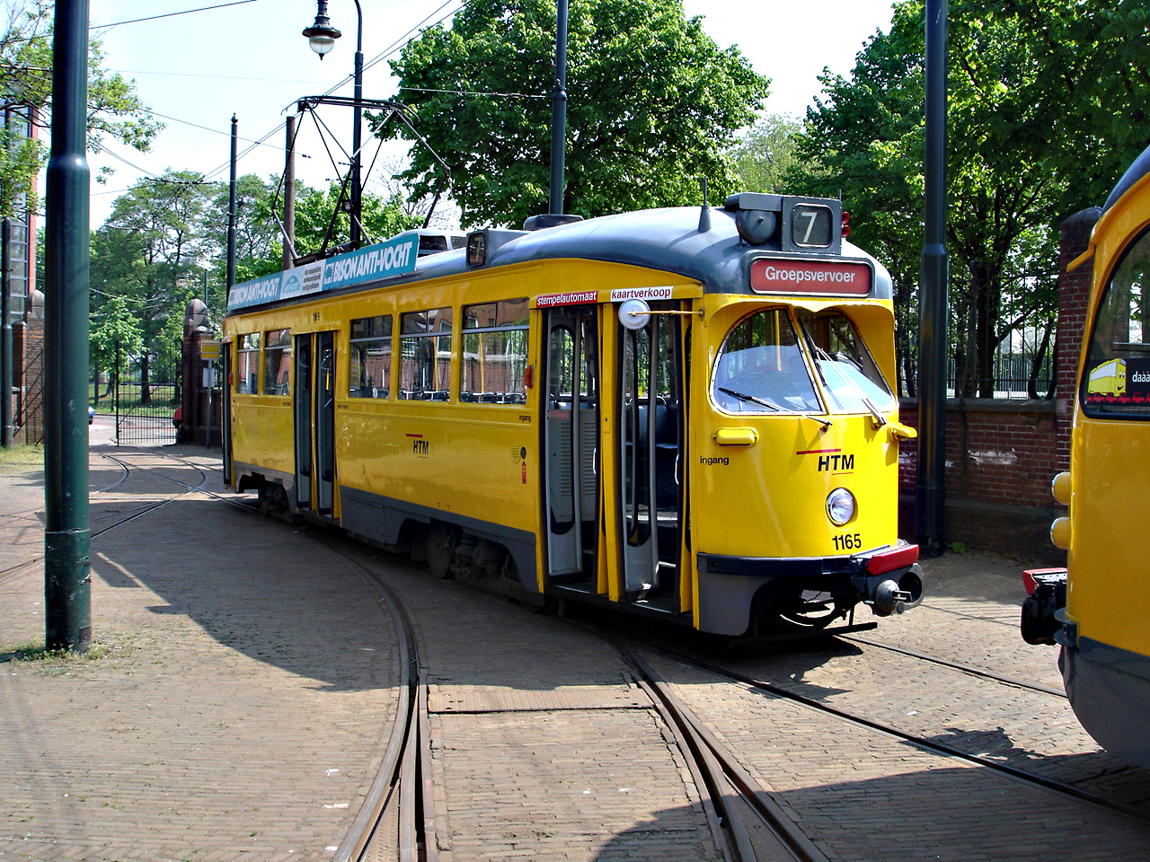 PCC 1165, HTM, HOVM, The Hague, The Netherlands.